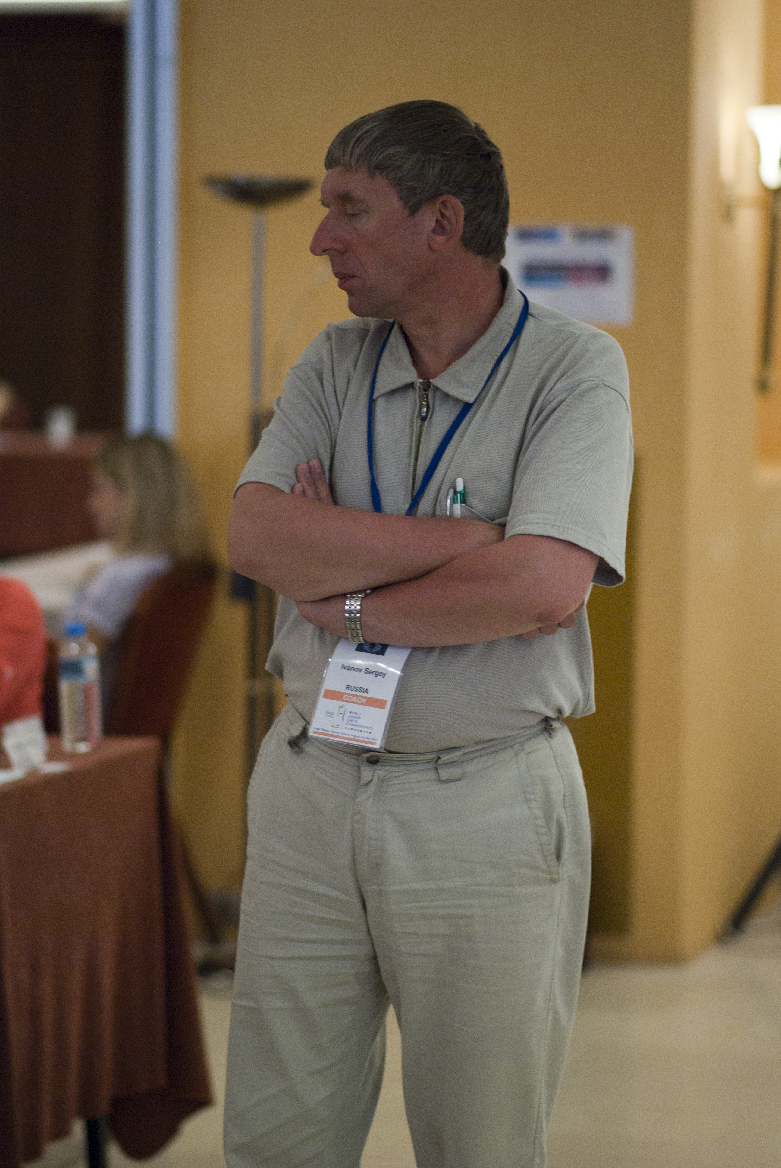 GM Sergey Ivanov, WChJ Athens 2012